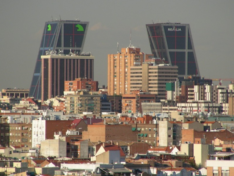 Partial view of the Tetuán district in Madrid (Spain). In the background, the Puerta de Europa (Gate of Europe) inclined buildings.